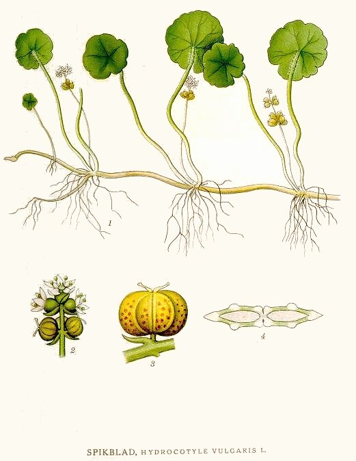 Original Description Spikblad, Hydrocotyle vulgaris L.